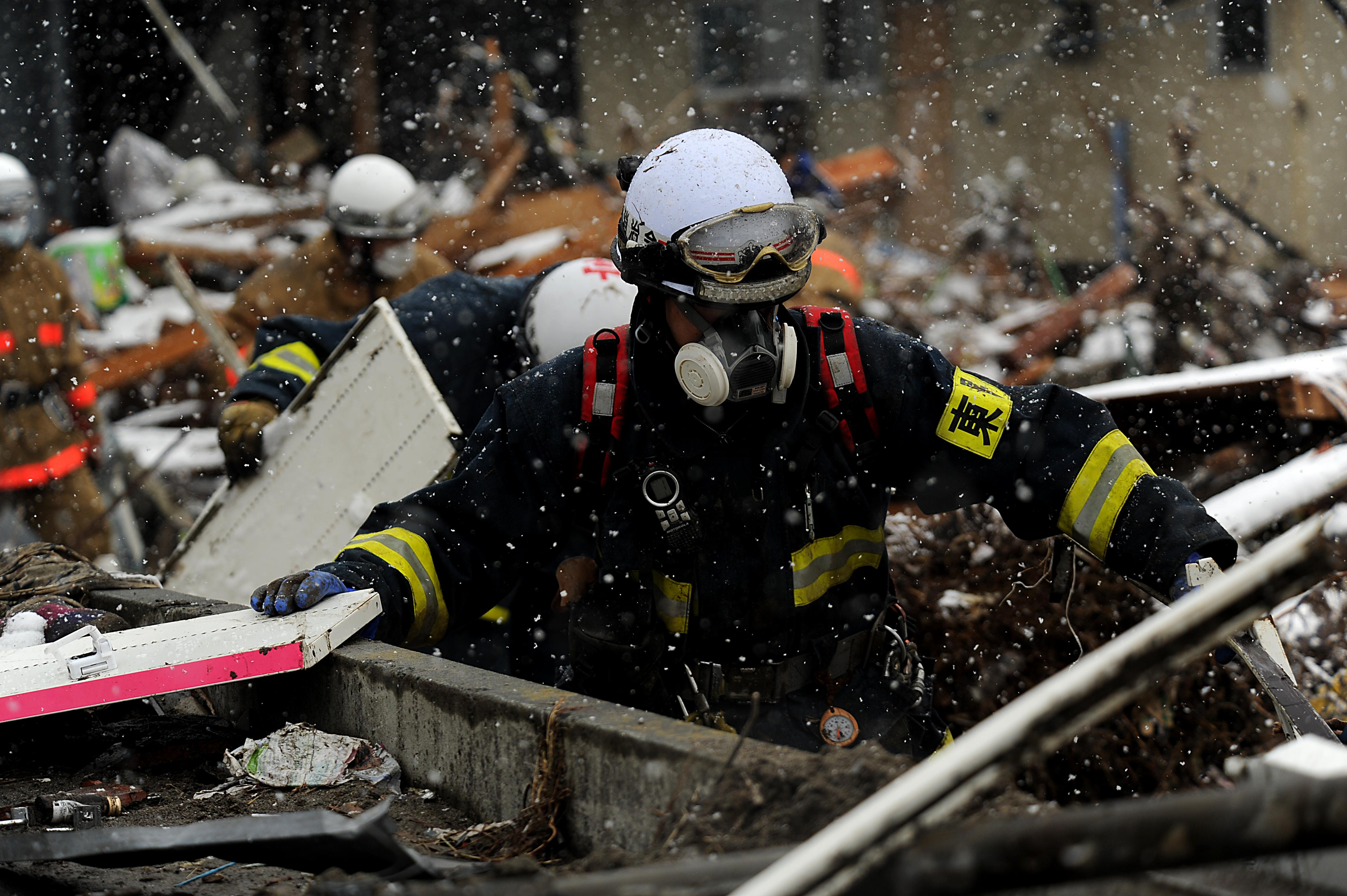 A member with the Japanese Search and Rescue team searches through the damage and debris on March 17, 2011, in Unosumai, Kamaishi, Iwate, Japan. A 9.0 earthquake hit Japan on March 11 that caused a tsunami that destroyed anything in its path. Photo by Master Sgt. Jeremy Lock, 1st Combat Camera Squadron Date Taken: 03.17.2011 Location:UNOSUMAI, JP Related Photos